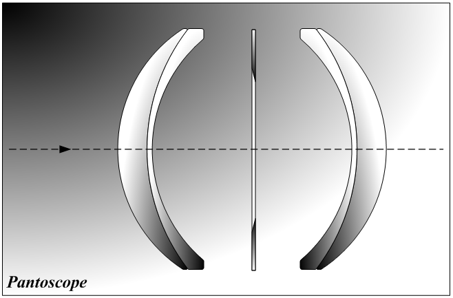 Pantoscope lens.